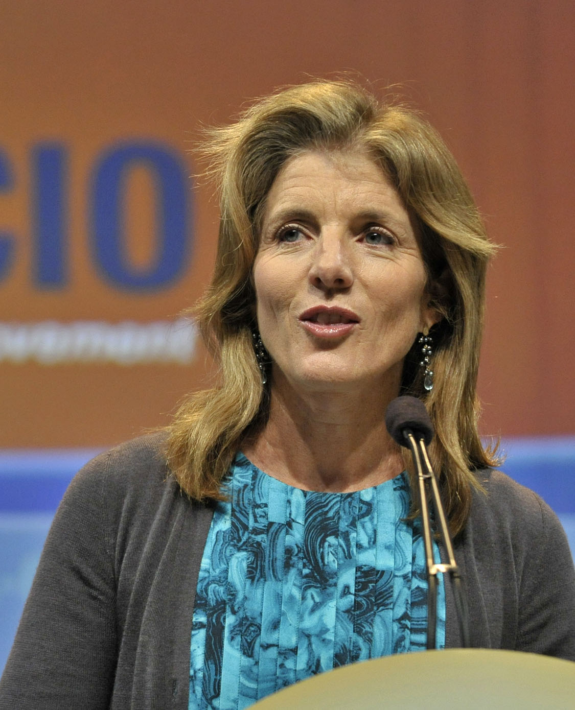 Caroline Kennedy AFL CIO 2009